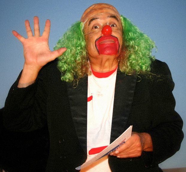 An actor characterized as Brozo